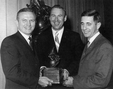 The Apollo 8 crew holding a replica of the Collier Trophy. From left: Frank Borman, Jim Lovell, and Bill Anders.